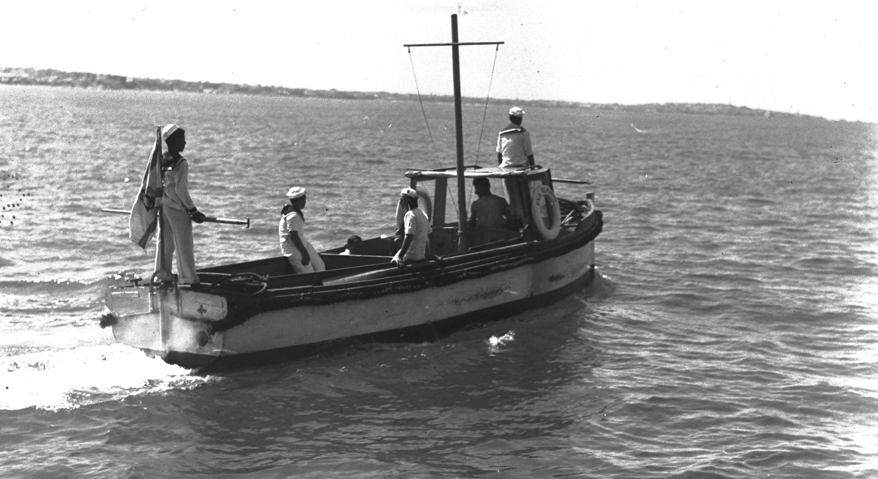 THE MOTORBOAT "EVA READING" USED BY JEWISH SEA SCOUT ORGANIZATION "ZEVULON" OFF TEL AVIV.